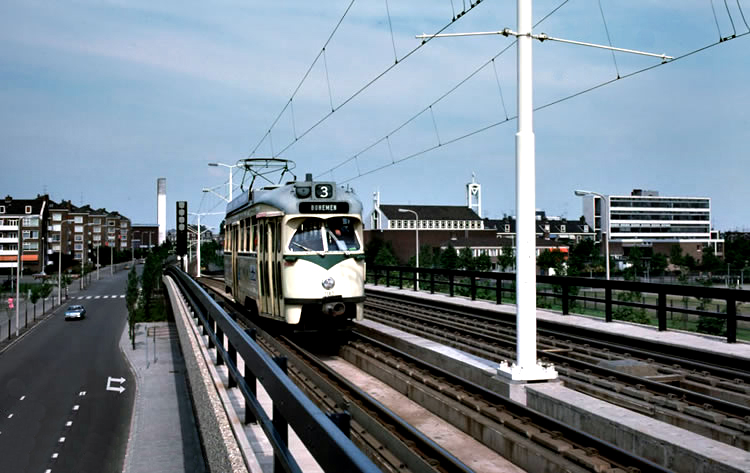 Tram route 3, The Hague, The Netherlands on new viaduct, 1976